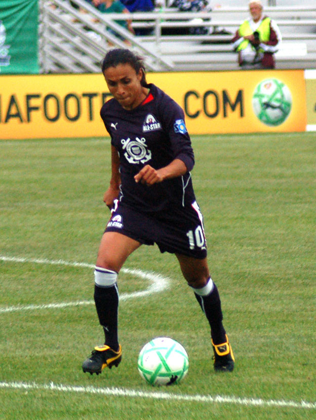 Marta in the All Star Match 2009